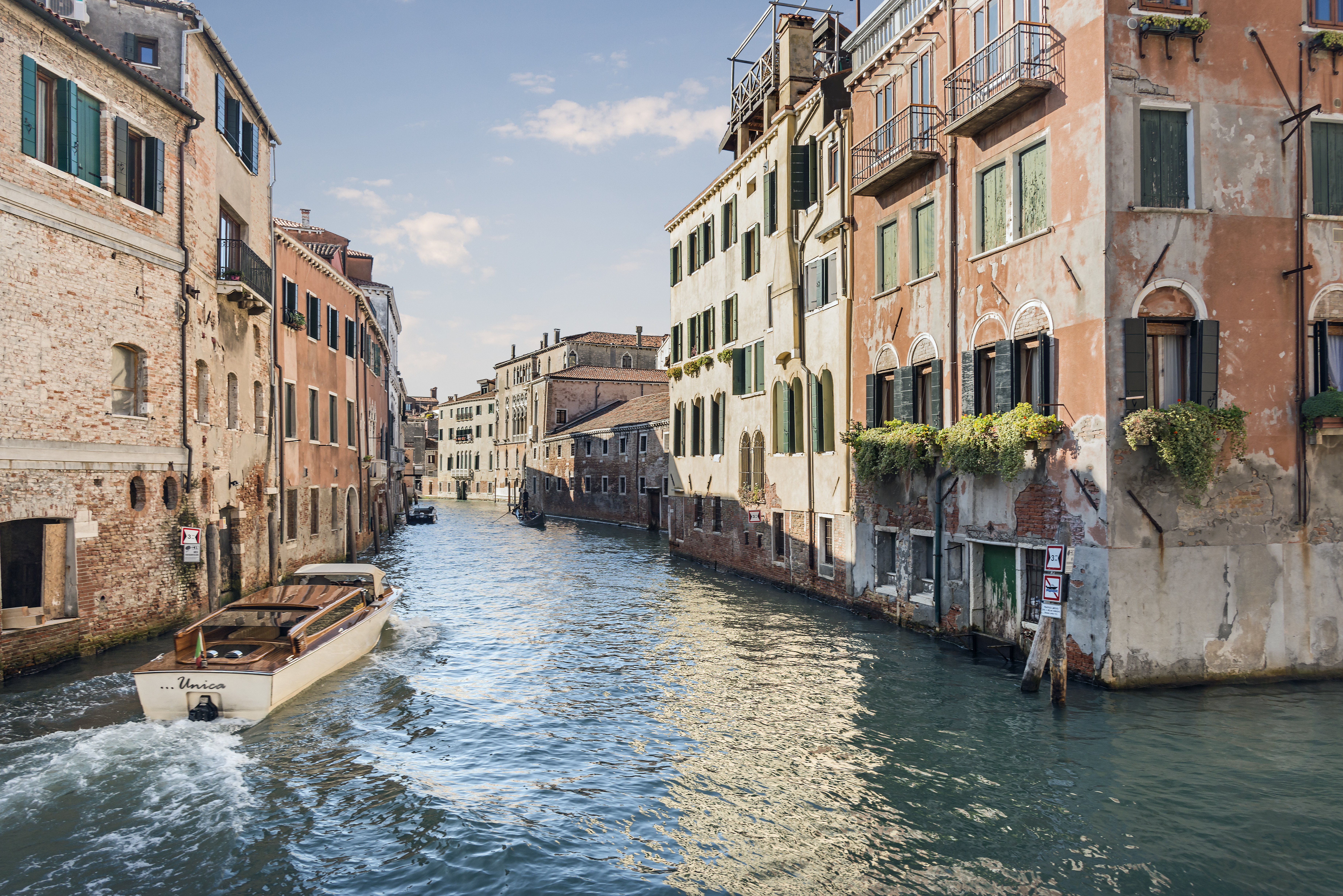 The Rio di Noale in Venice, seen from Scuola nuova della Misericordia